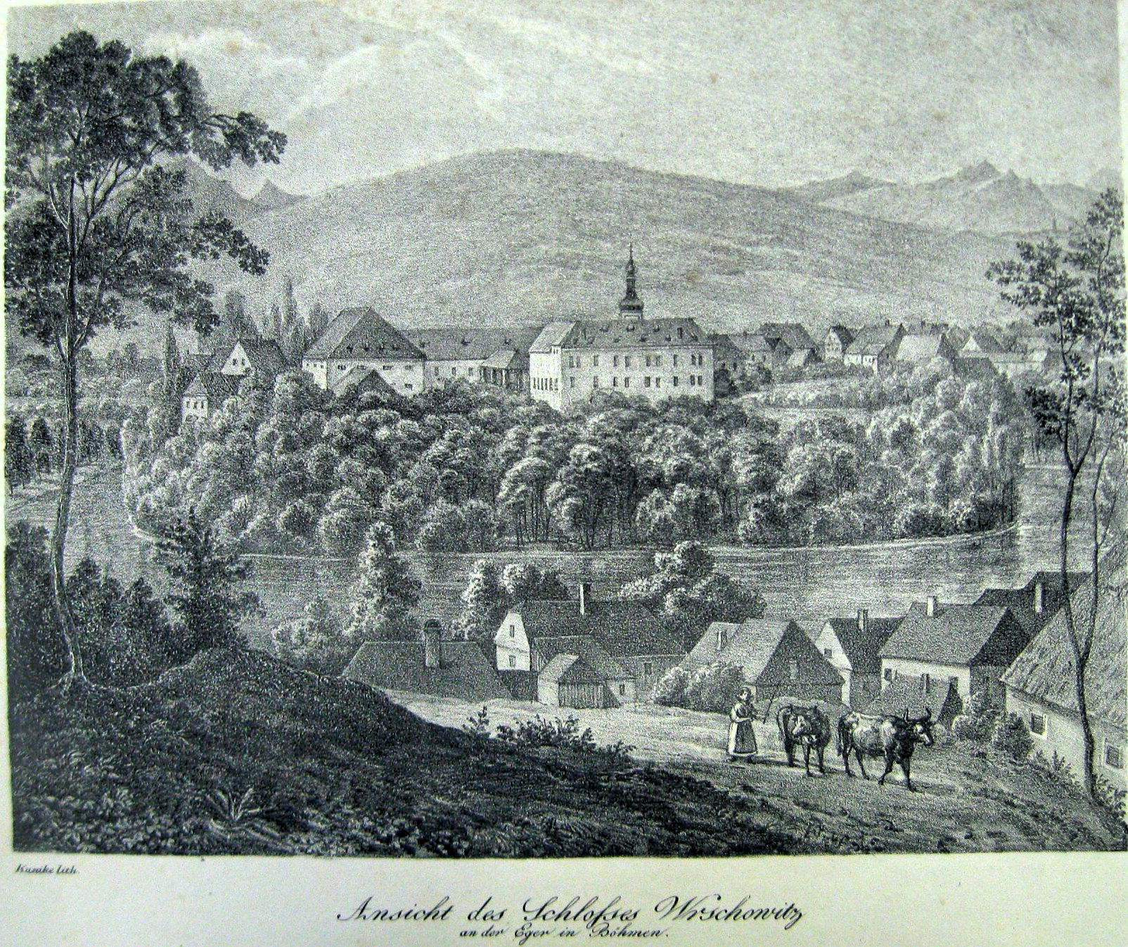 Vršovice castle between 1833–1835 on the litography of A. F. Kunike